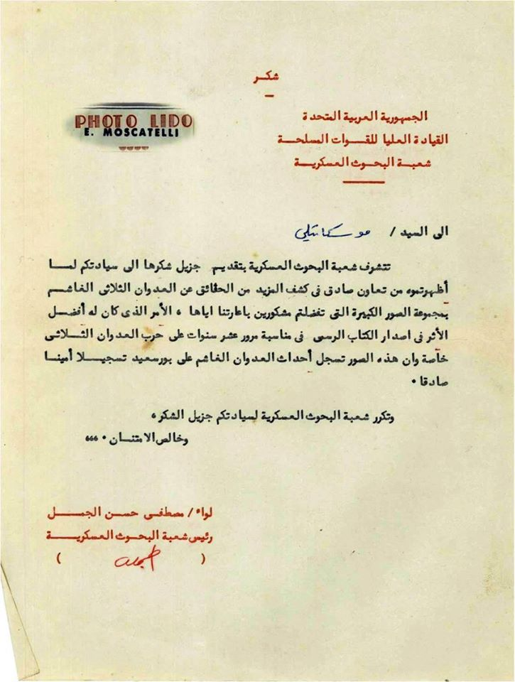 Thank-you letter United Arab Republic Supreme Command of the Armed Forces Military research office To Mr. MOSCATELLI, The Military Research Office wishes to thank you for your loyal cooperation that has helped to reveal the truth about the brutal Tripartite Aggression. The vast array of photos you supplied us with has significantly contributed to the publication of the official book on the tenth anniversary of 1956 war. Your photo reportages are a faithful and reliable testimony of the Tripartite Aggression against Port Said. May we take the opportunity to thank you on behalf of the Military Research Office. Our warmest regards General Mustafa Hassan Al Jamal Head of the Military Research Office